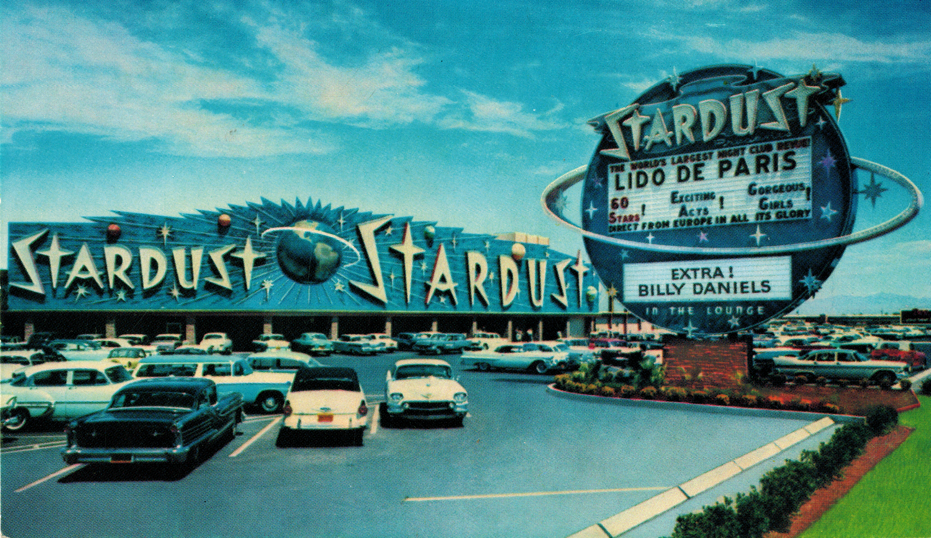 Early 1960s postcard showing the Stardust hotel and casino and its distinctive round roadside sign. The building and roadside signs date back to the opening of the hotel in 1958.